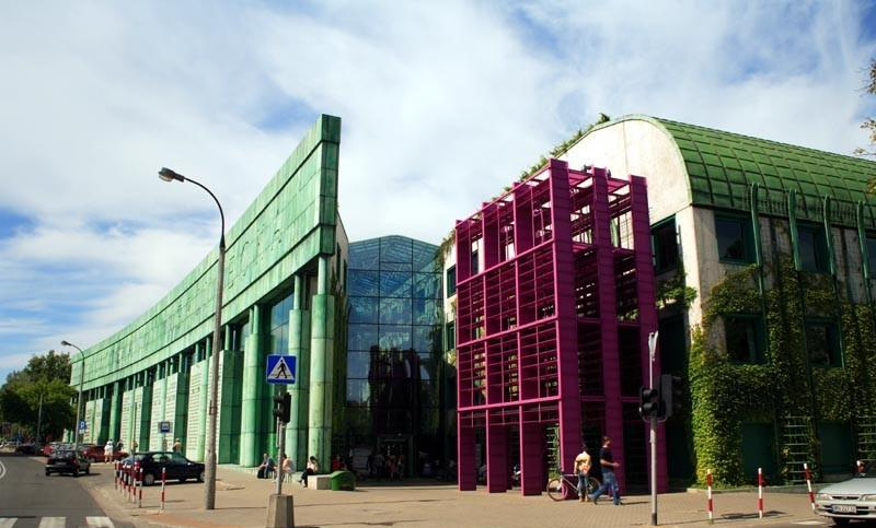 University Library in Warsaw